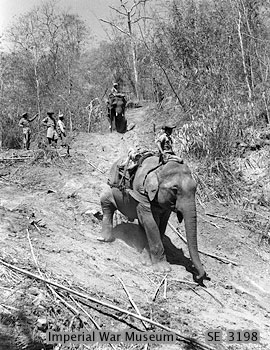 THE BRITISH ARMY IN BURMA 1945, Men of the an Indian forestry company use elephants to transport logs from the timber grounds to the wood yard where they will be used to build boats to be used on the Chindwin River, 23 February 1945.